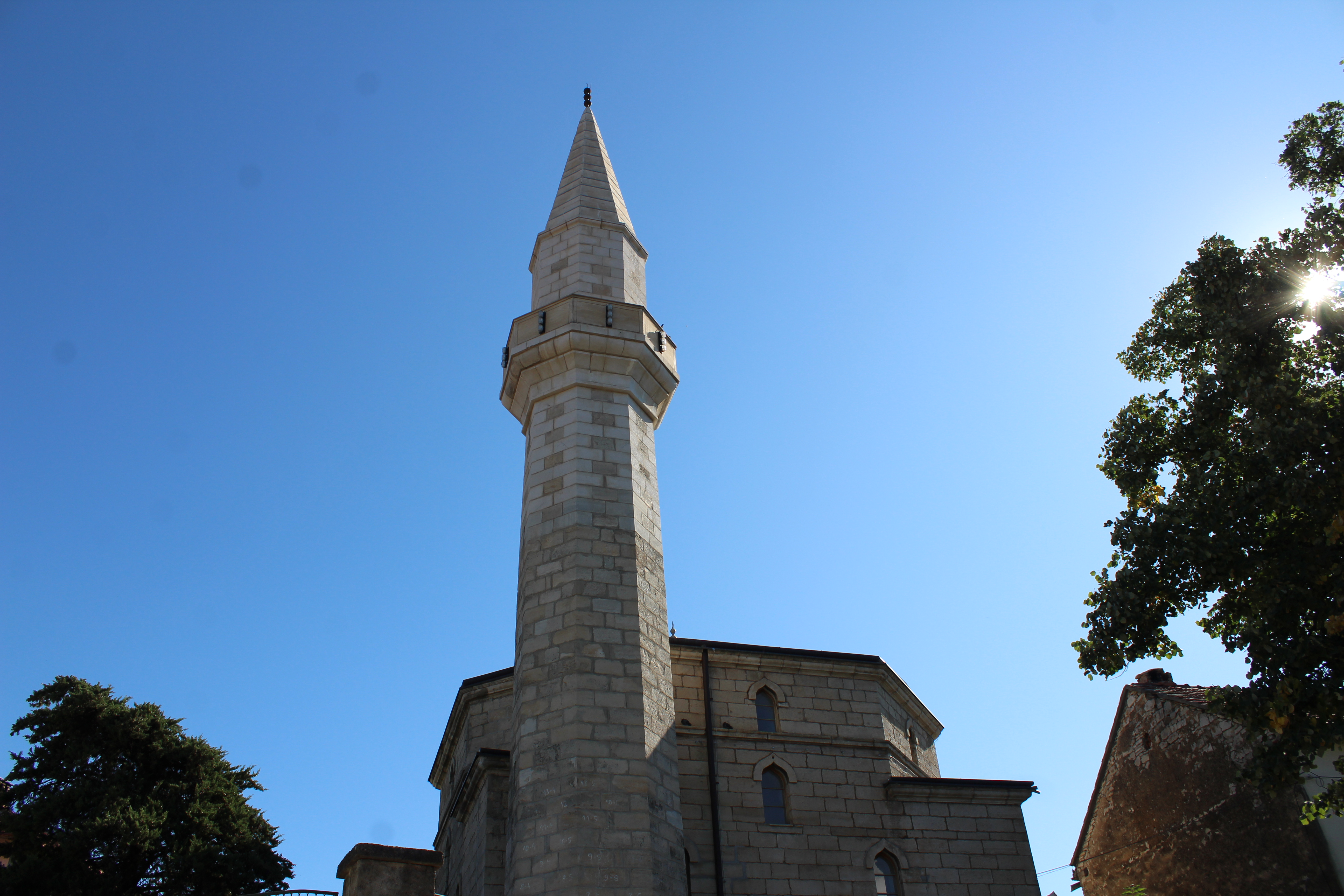 Srpski (latinica): Careva džamija (Bileća). This image was uploaded as part of Trace of Soul 2019.